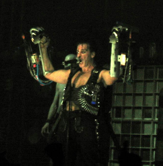 Till Lindemann, singer of German band Rammstein